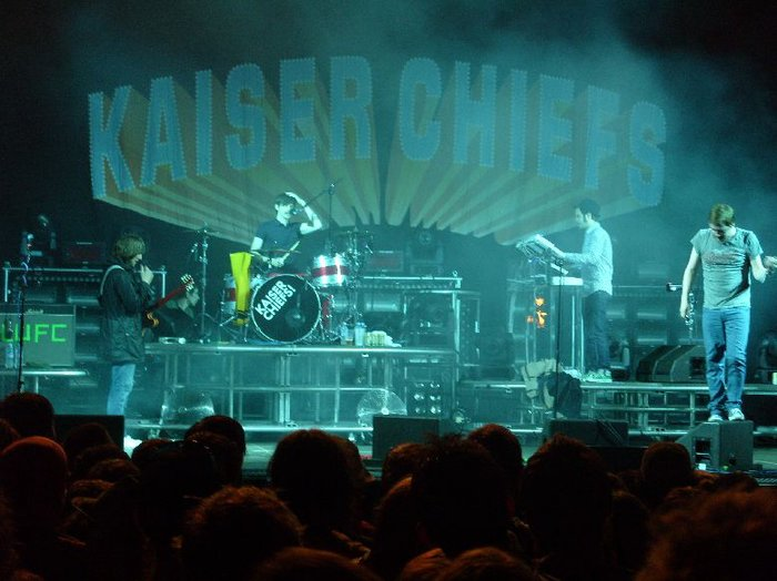 Kaiser Chiefs at Rock for People 2008 (Czech republic)